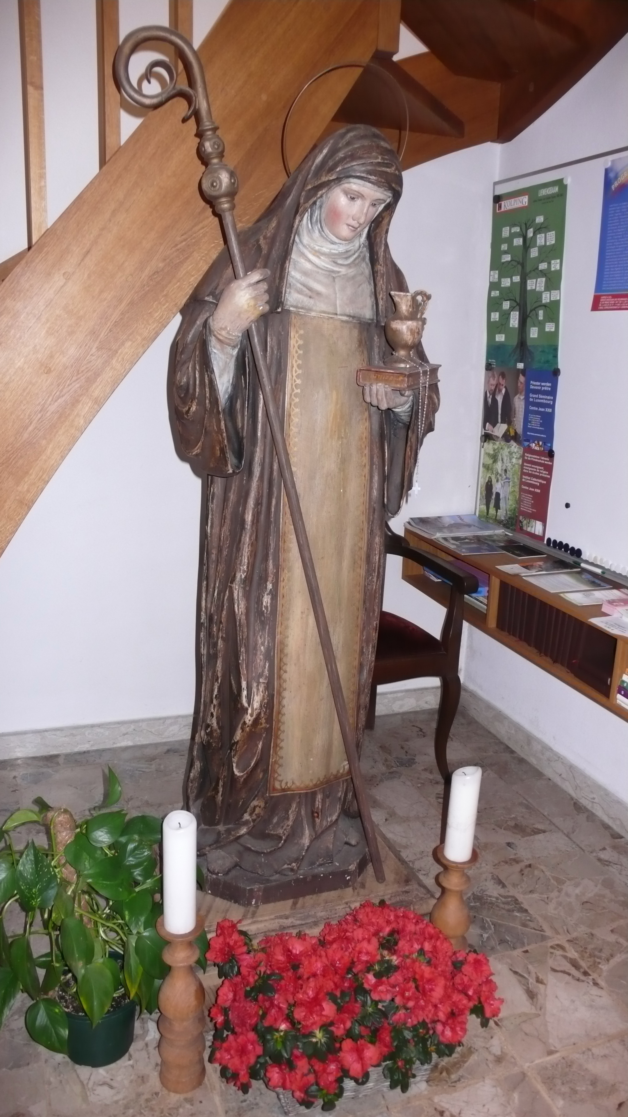 Statue of Saint Walpurga inside Contern church, Luxembourg.